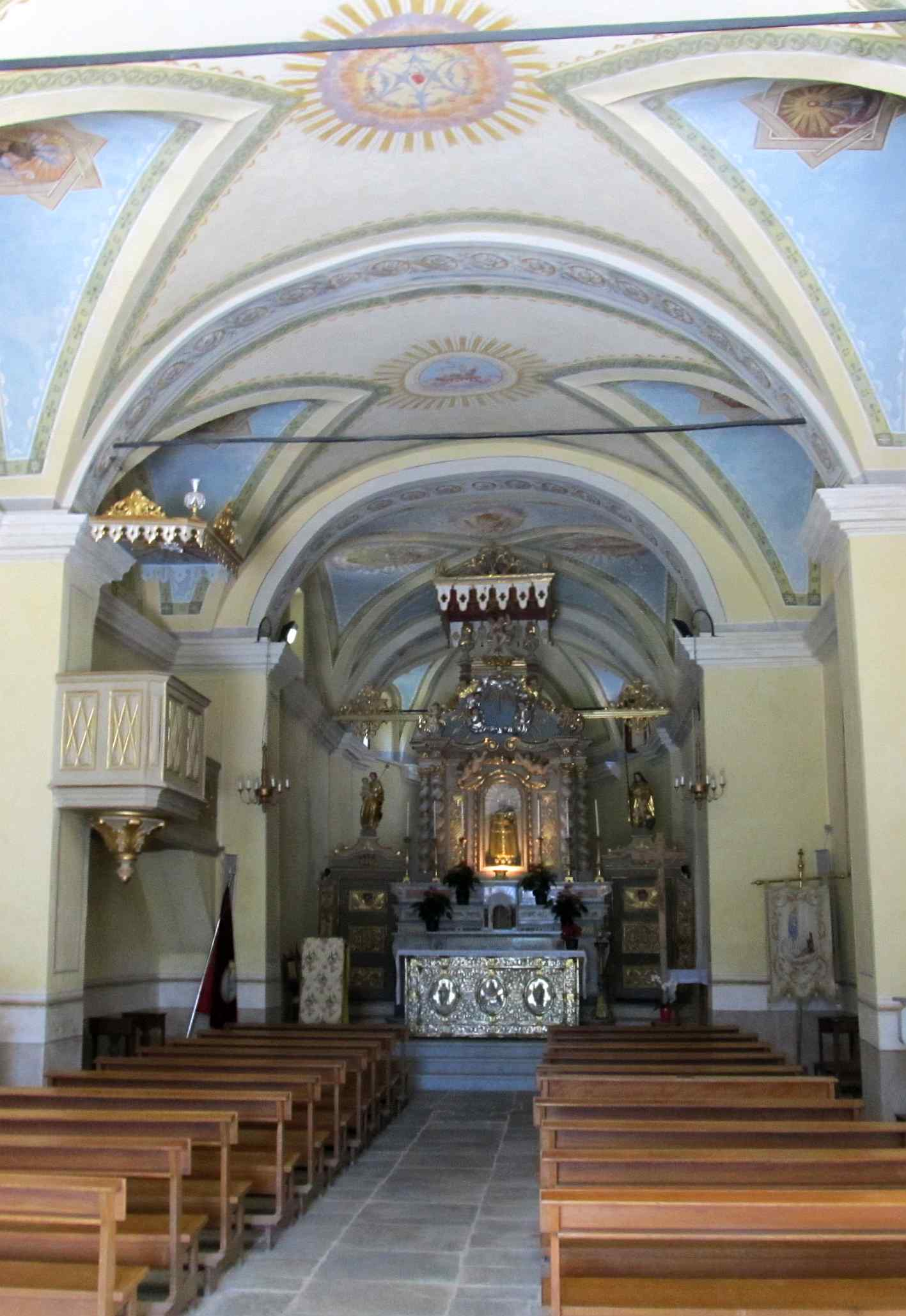 Santuario di Prascondù (TO, Italy): interior of the church Piemontèis: Ël santuari ëd Prascondù